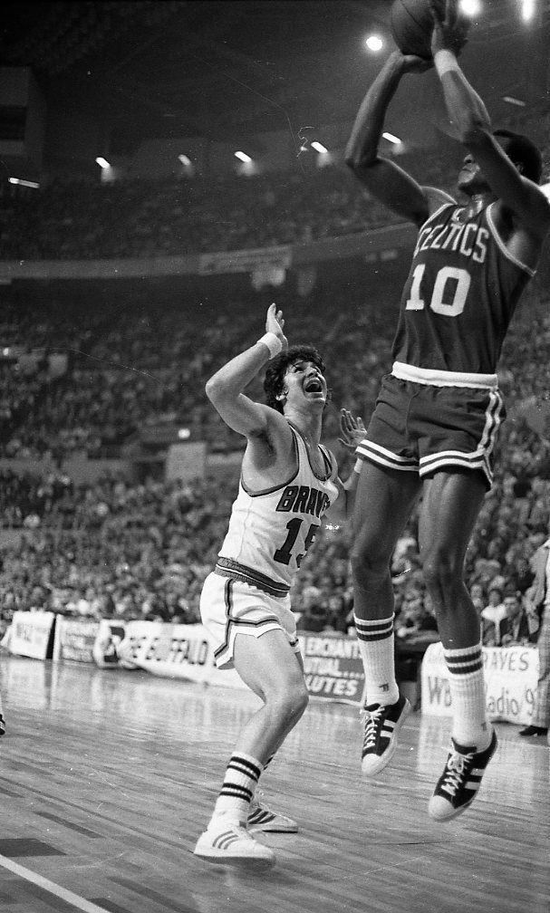 Celtics players Jo Jo White being marked by Ernie DiGregorio (Braves).